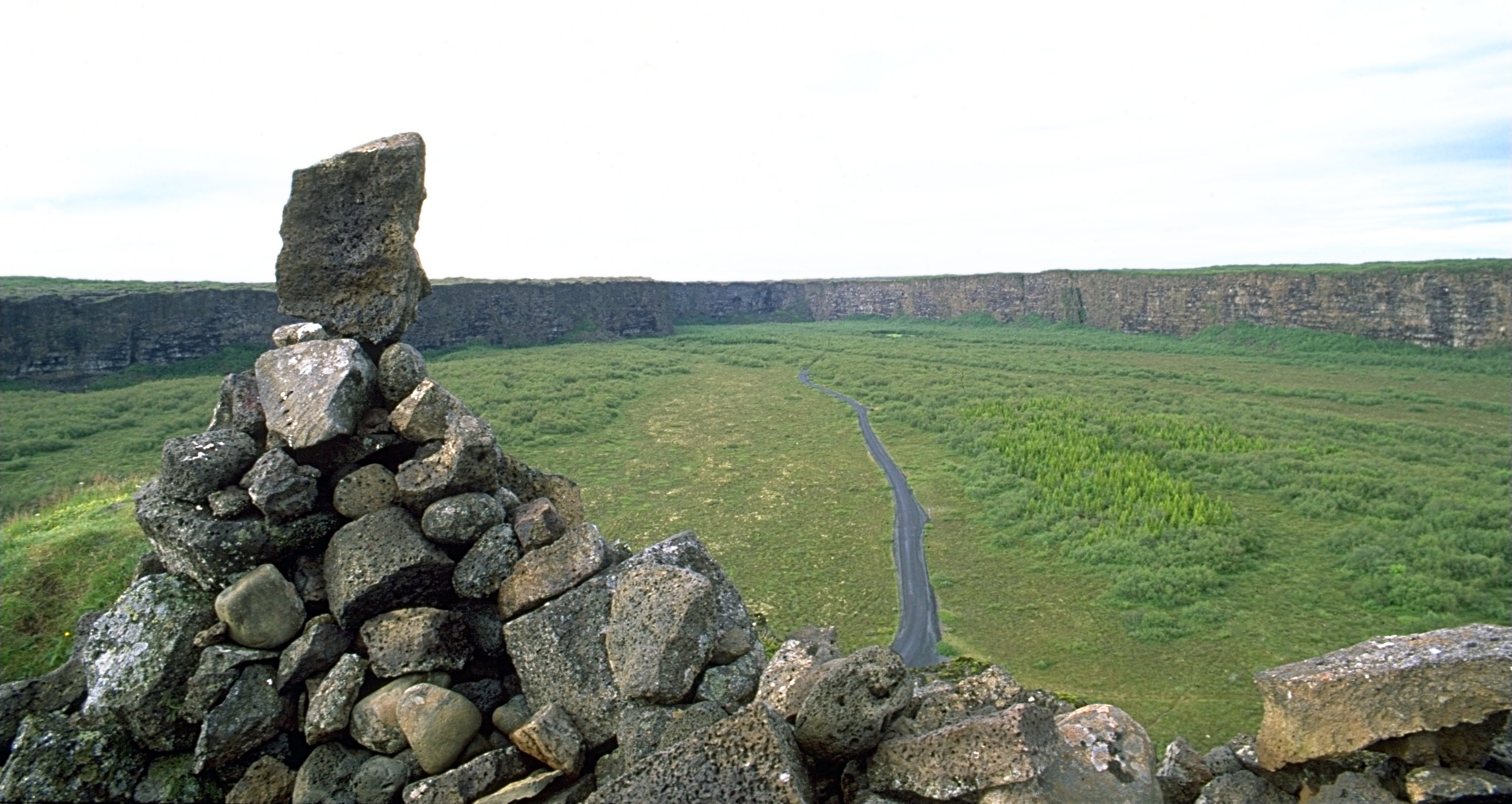 View from Eyjan at Ásbyrgi, Iceland Photo was taken using the following technique: Film: Fuji Velvia Lens: 2.8/28 Filter: Body: Minolta 600si Support: Gitzo Monotrek Image with Information in English Bild mit Informationen auf Deutsch